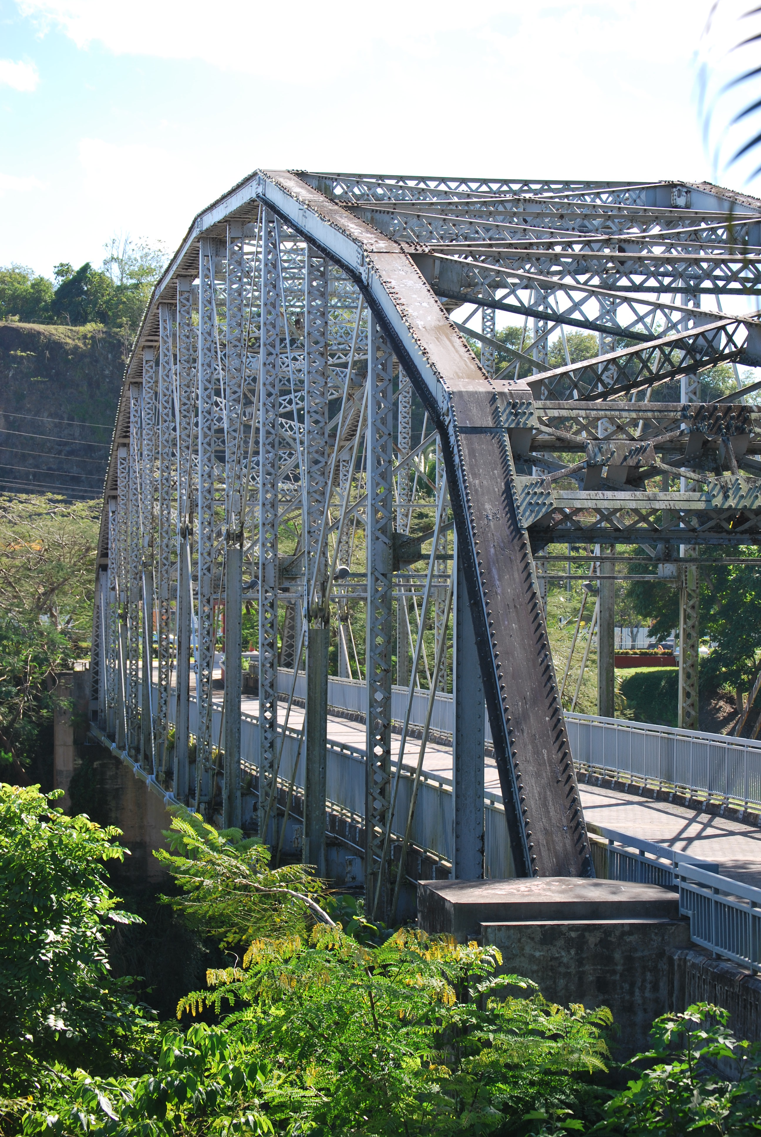 Historic steel bridge in Trujillo Alto, Puerto Rico over the PR-181